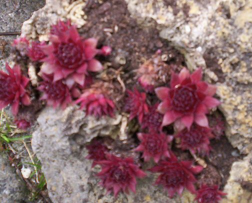 Huislook (foto Känsterle, public domain)